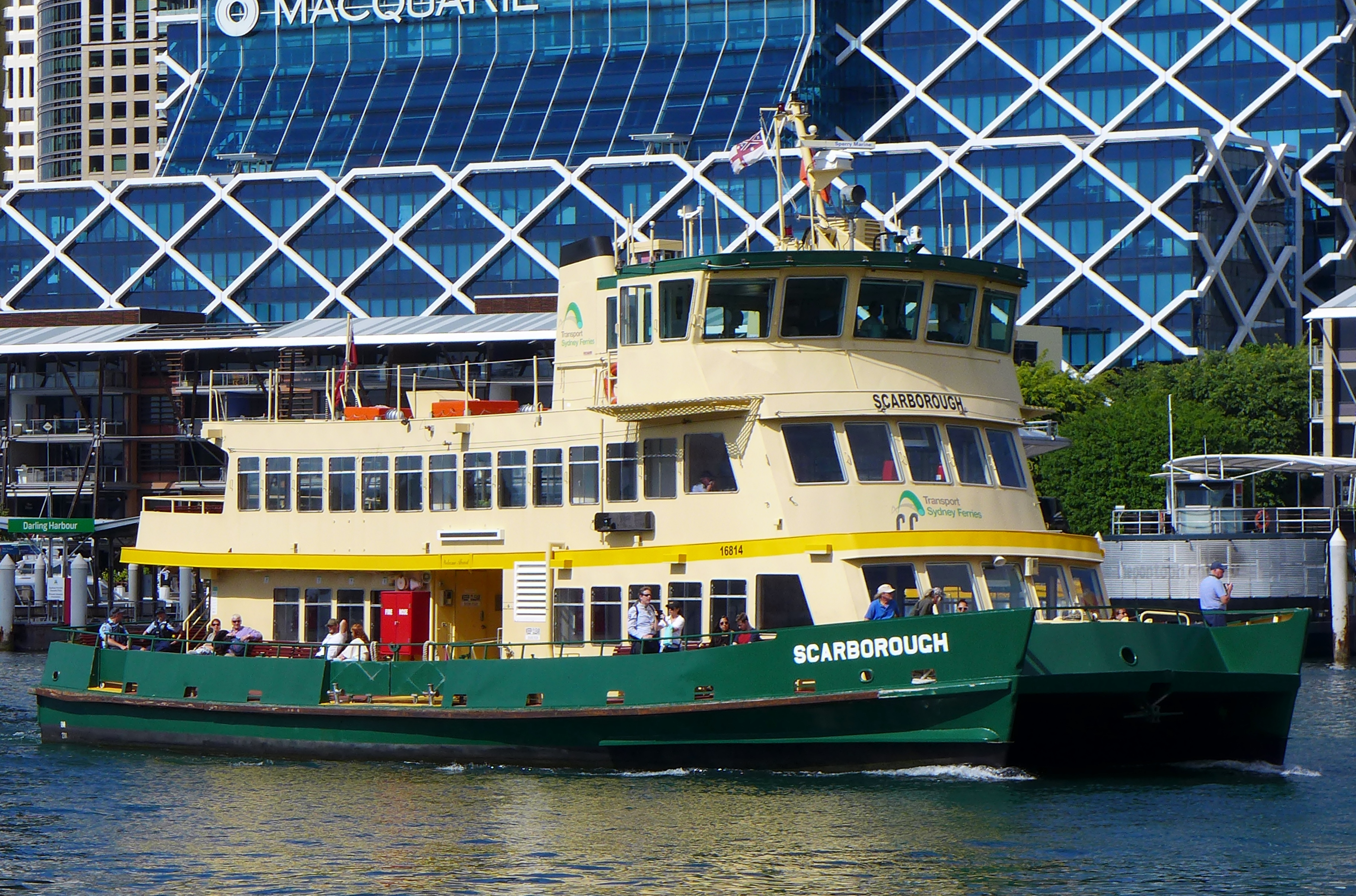 Sydney Ferries' First Fleet-class ferry Scarborough approaching Pyrmont Bay ferry wharf with an F4 service from Circular Quay